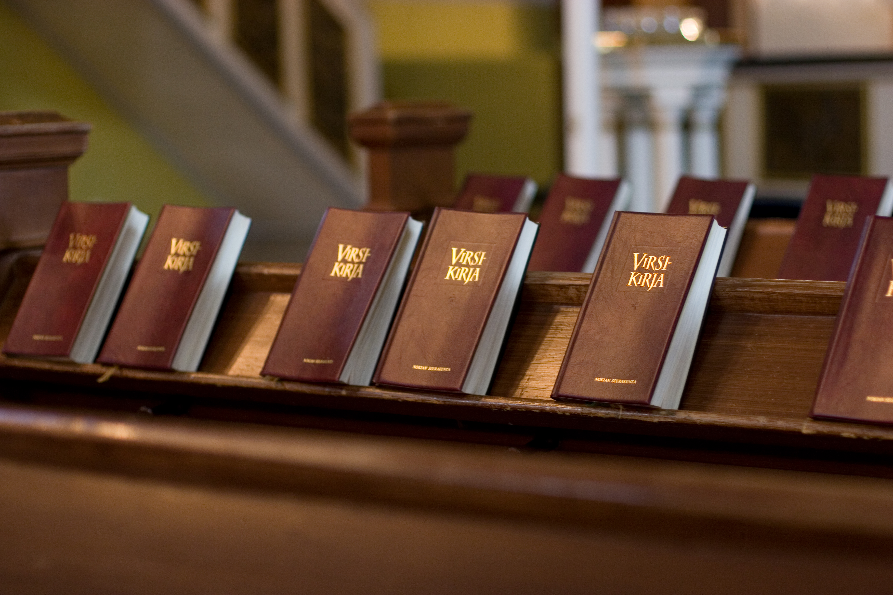 Finnish Psalm books in a church, waiting seremony.